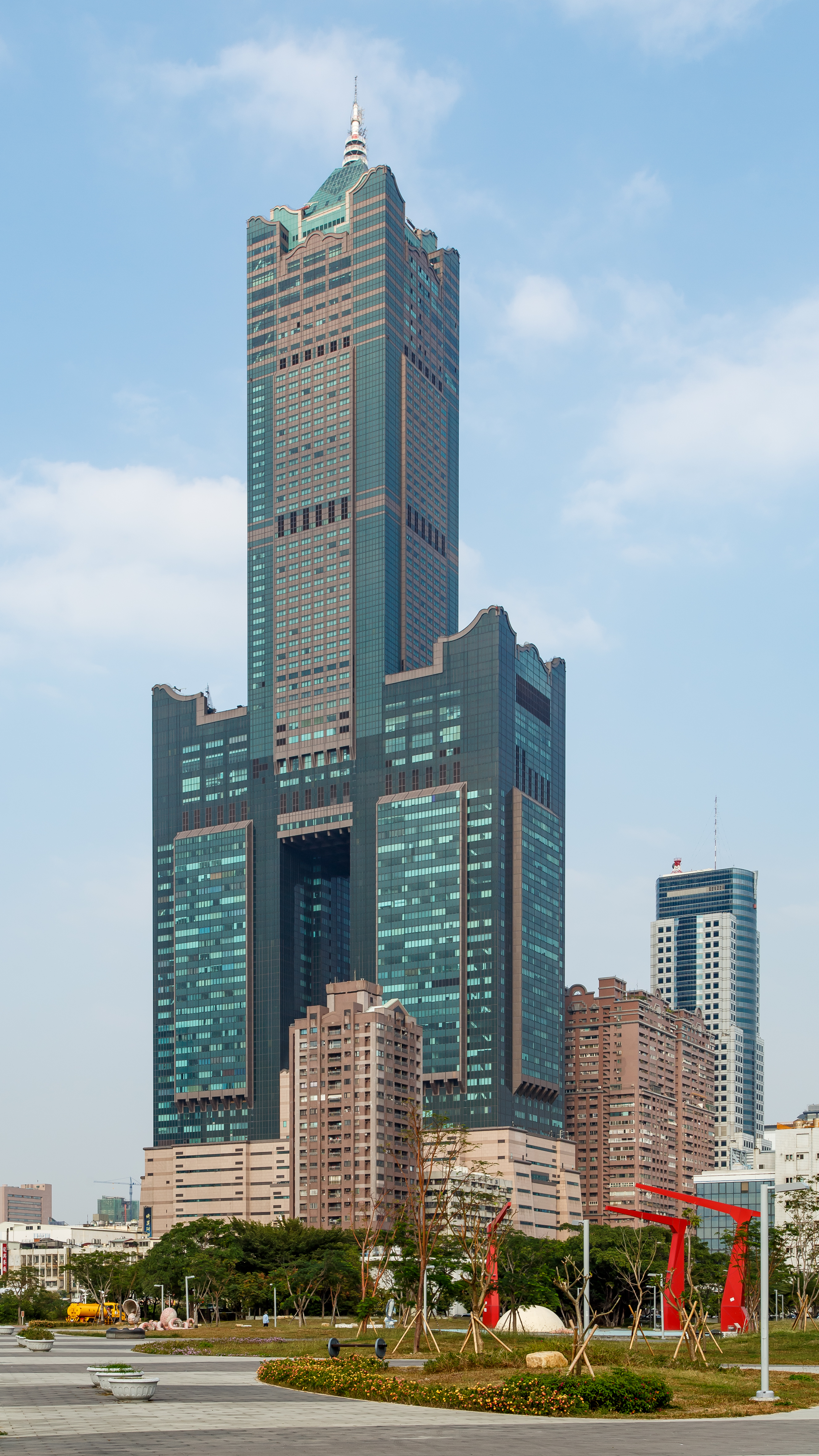 Kaohsiung, Taiwan: Kaohsiung 85 Building also known as Tuntex Sky Tower.